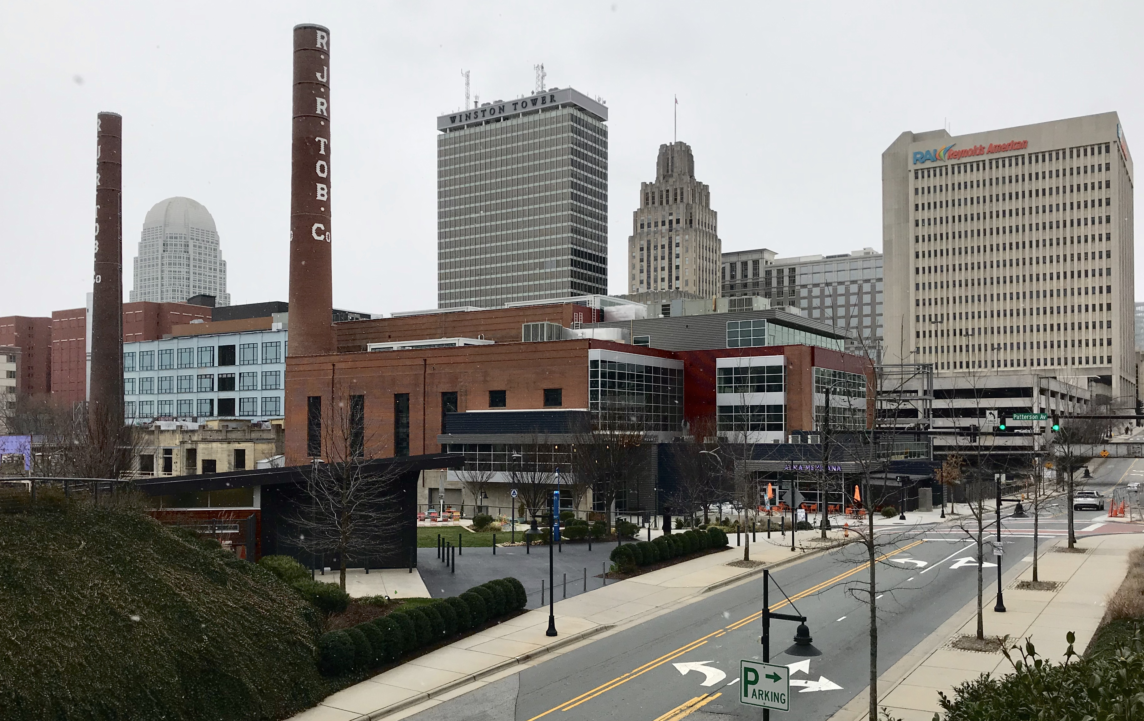 Skyline of downtown Winston-Salem with the redeveloped Bailey Power Plant in the foreground and 100 North Main Street, Winston Tower, the Reynolds Building, and the Reynolds American building in the background